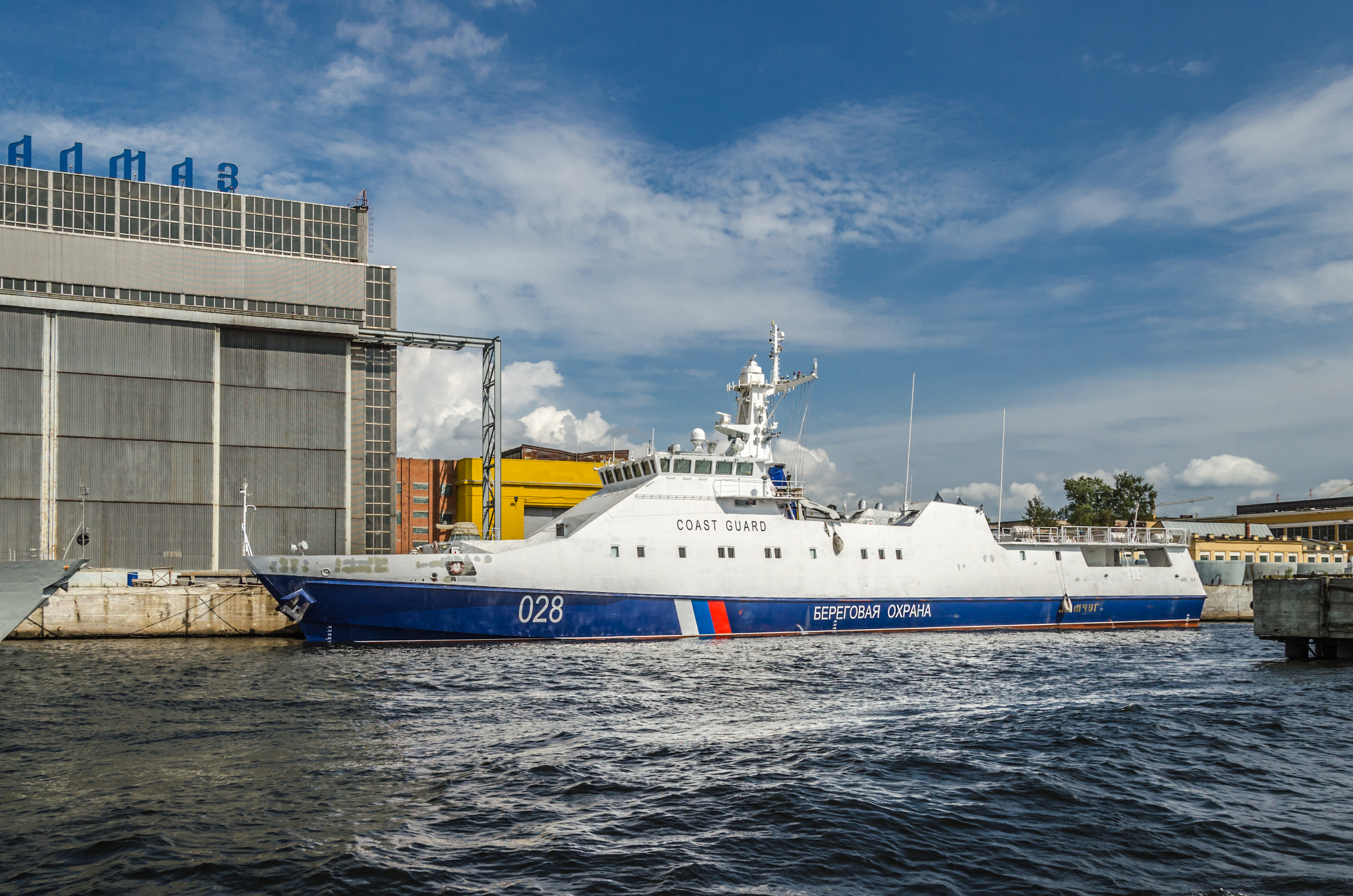 Coast guard boat on Neva river in Saint Petersburg